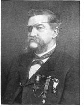 Samuel Cole Wright, a veteran of the American Civil War and recipient of the Medal of Honor